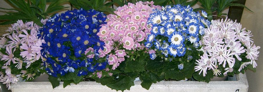 Pericallis x hybrida